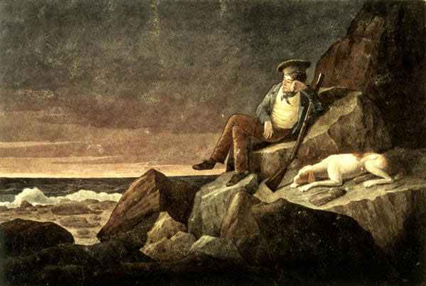 Solitude, watching the horizon at sun set, in the hope of seeing a vessel, Tristan da Cunha in the South Atlantic